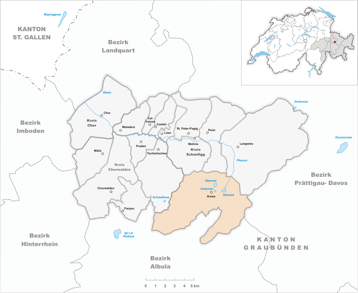 Municipality Arosa